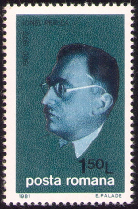 Ionel_Perlea_stamp_1981